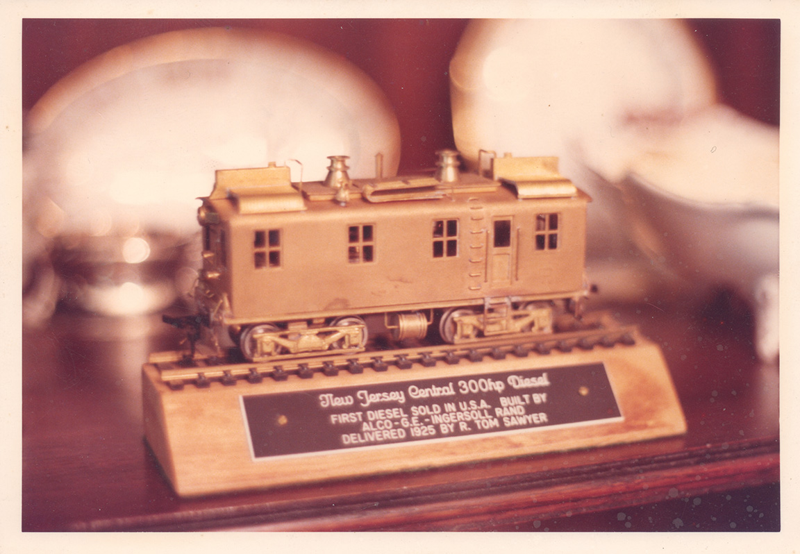 First Diesel Locomotive sold in the US award, given to R. Tom Sawyer Inscription reads: New Jersey Central 300hp Diesel FIRST DIESEL SOLD IN U.S.A. BUILT BY ALCO - G.E. - INGERSOLL RAND DELIVERED 1925 BY R. TOM SAWYER